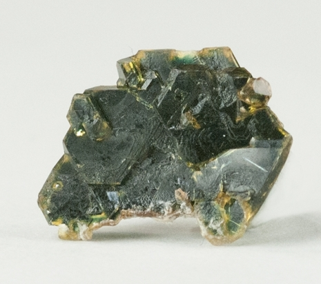 Iowaite (Size: 1.4 cm x 0.9 cm x 0.2 cm) Locality: Palabora mine (Foscor open pit; PMC mine), Loolekop, Phalaborwa, Limpopo Province, South Africa Original description: Iowaite is a rare Mg-Fe hydroxide of the Hydrotalcite Group. This is a very fine, two-sided compound tabular crystal with high lustre and nicely translucent edges. The world's finest examples of the species come from this large open pit mine.